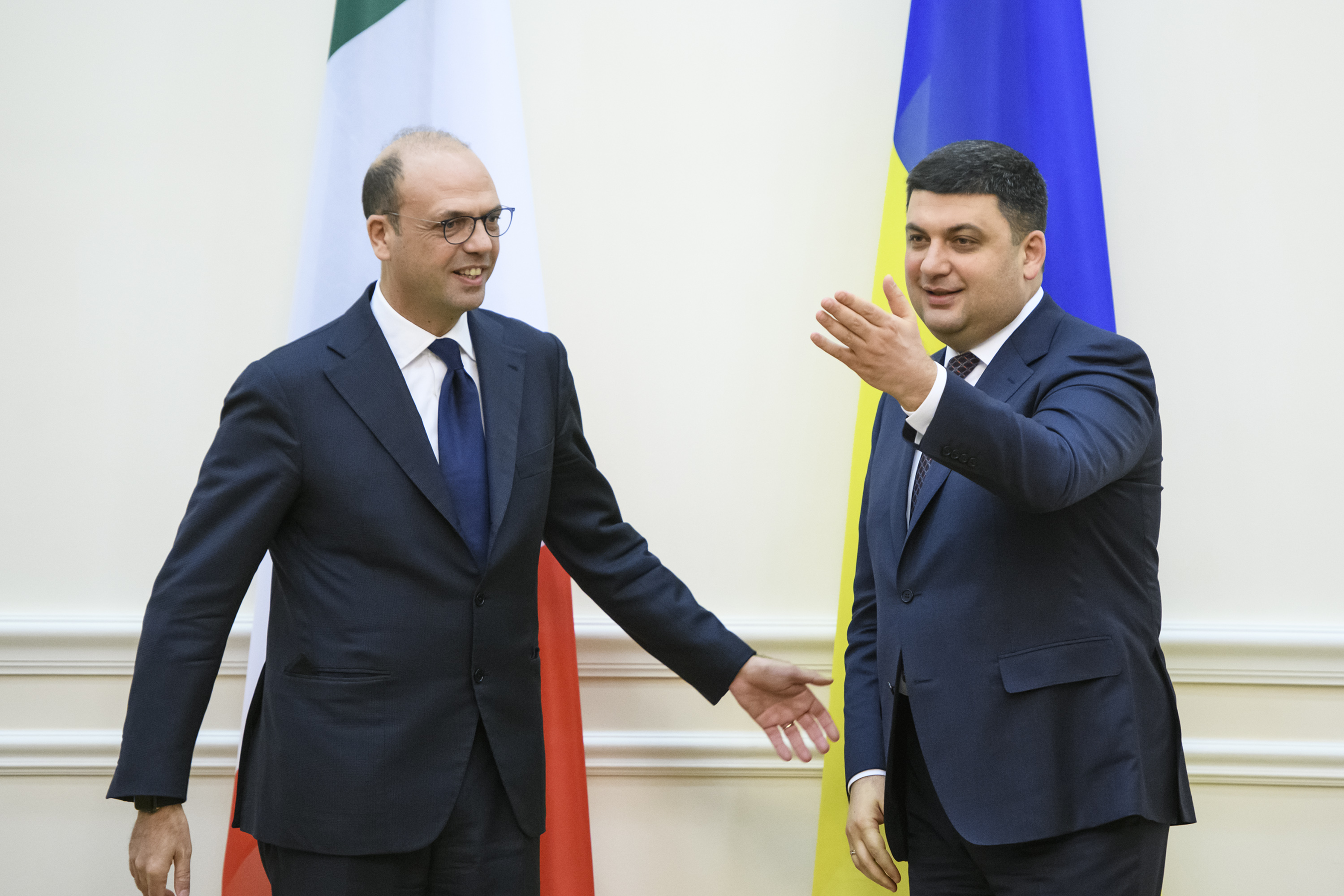 Прем’єр-міністр України Володимир Гройсман зустрівся з Міністром закордонних справ Італії Анджеліно Альфано опубліковано 30 січня 2018 року о 18:00